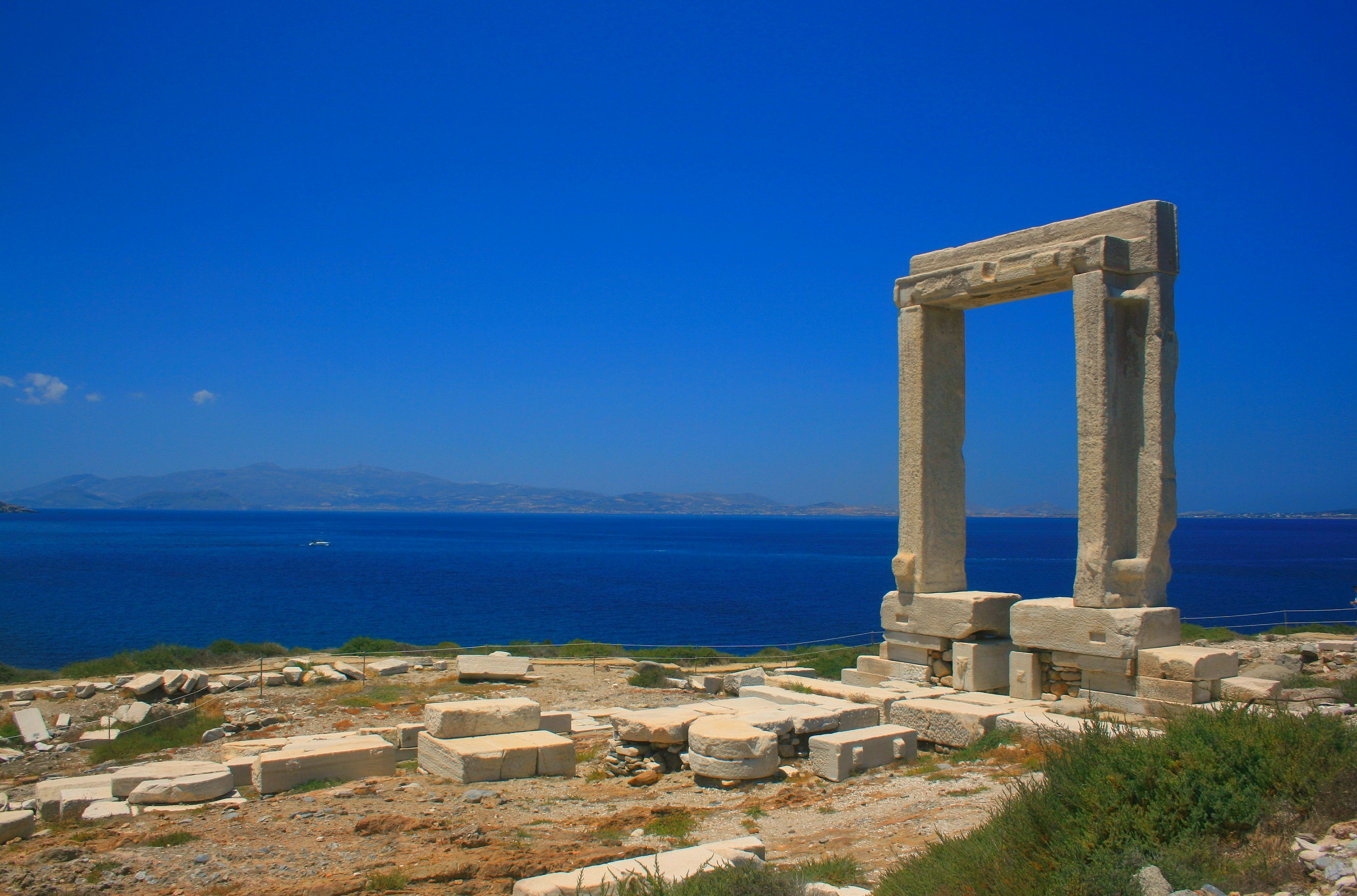 Ruins from Temple of Apollo on Naxos, temple entrance, Landmark, Greece